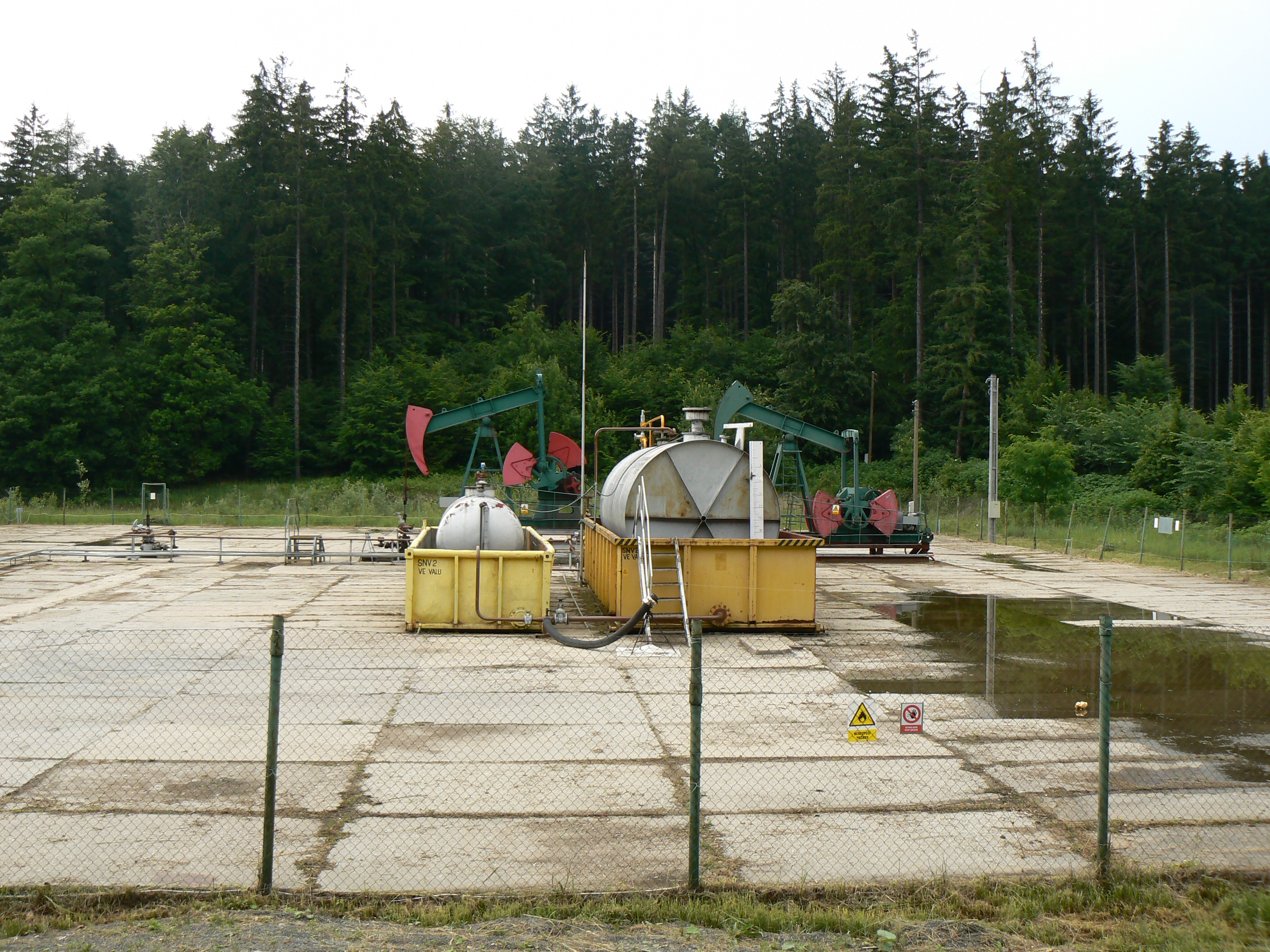 Oil well near Koryčany, Czech Republic.